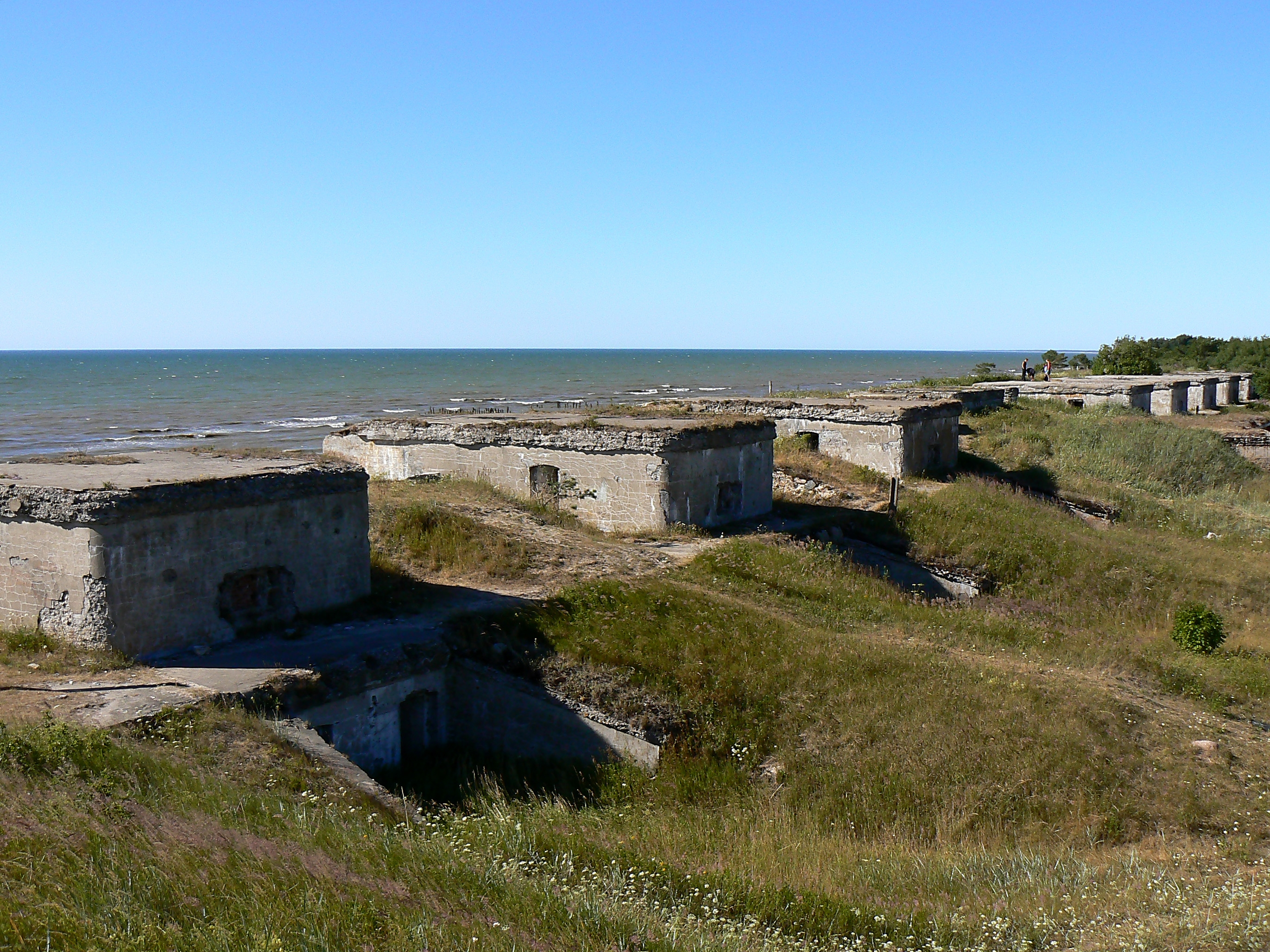 Liepaja fortress ruins. Image shows Battery nr.1 in North forts. Most of buildings are concentrated in Karosta.